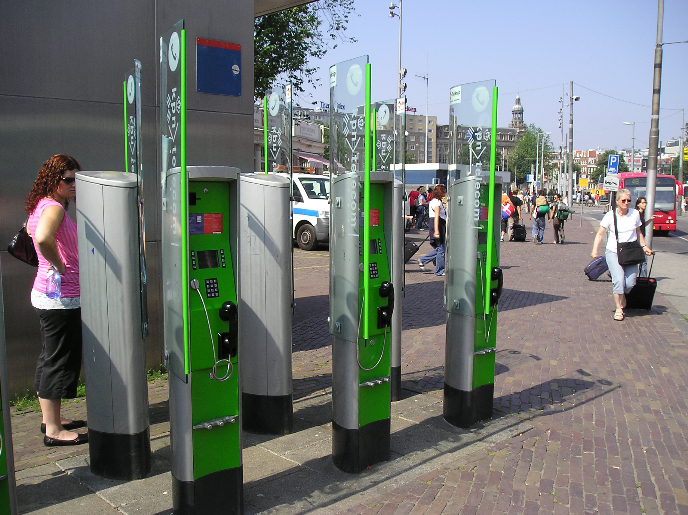 Public payphones in Amsterdam, near the Central Station.